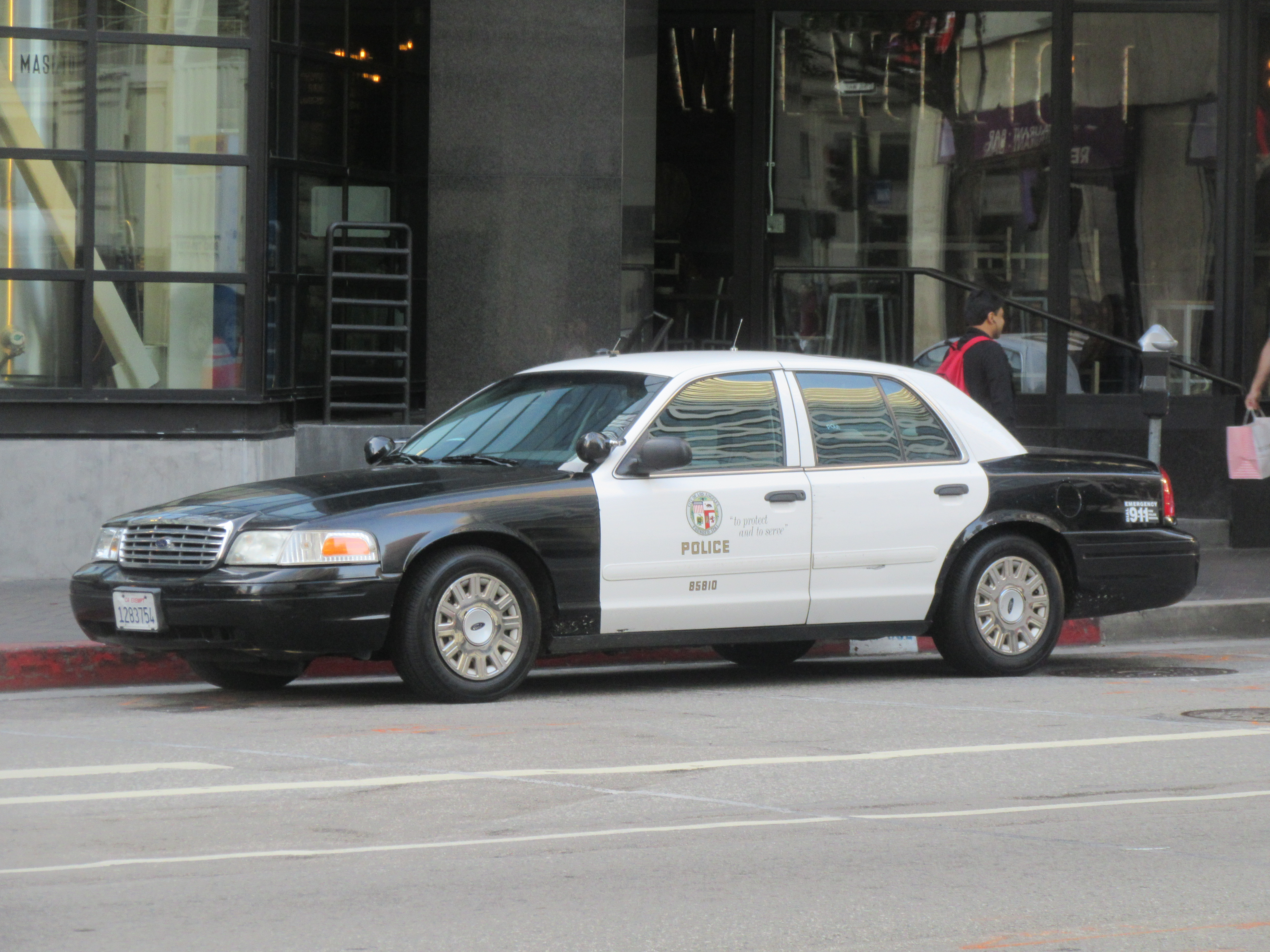 LAPD Ford Crown Victoria Surprising but heartening to not only see Crown Vics working for a department as big as the LAPD in 2018, but to see units this old (this one has gotta be pre-2005, if not older) in service. Gives me hope that some of the newer Vics will be going for quite a while. --Jason Lawrence